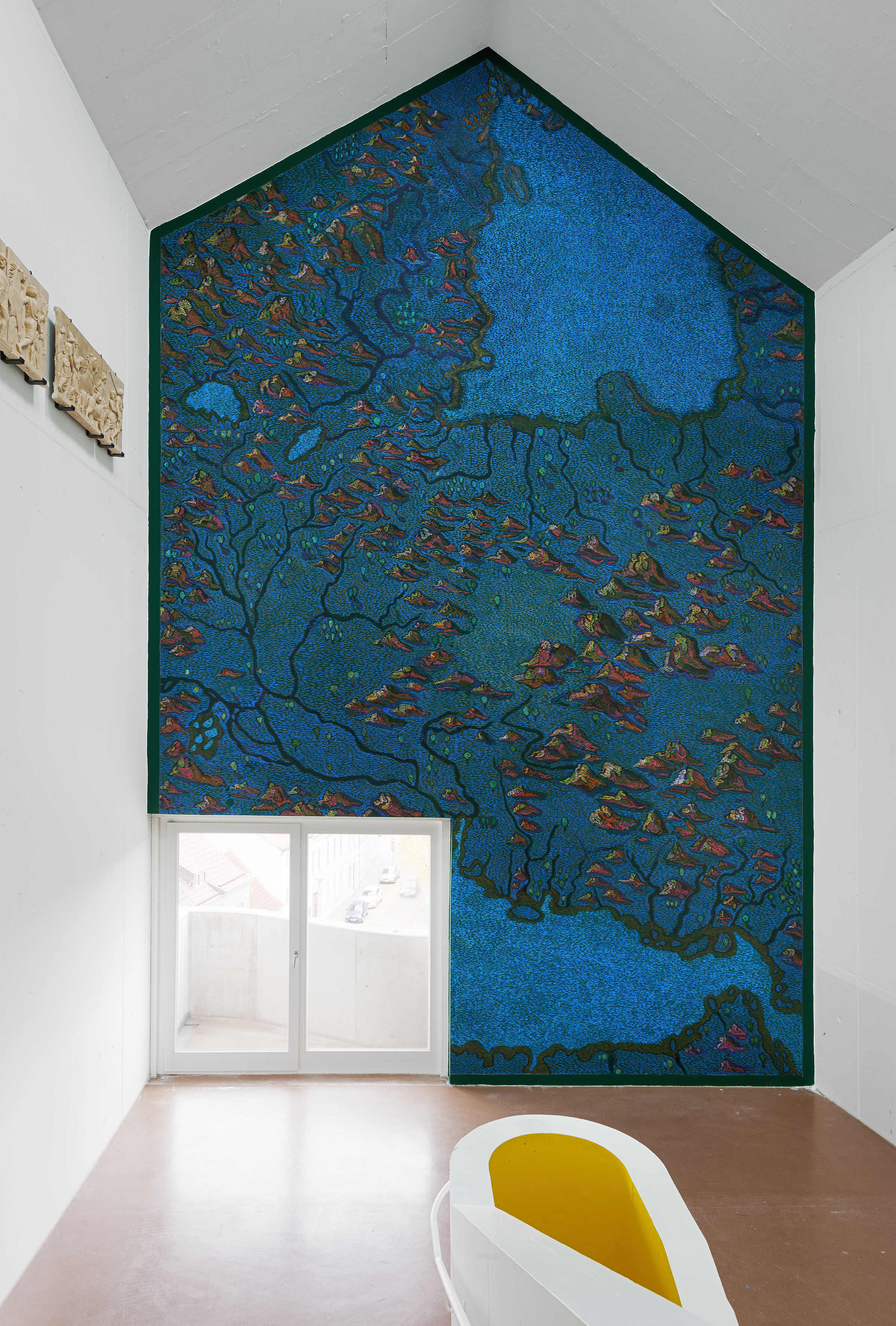 Laura Bruce - "De Sepentrione ad Austrum", 2015, 10m x 6m, permanent wall drawing for the city of Aschersleben - photo by Uwe Walter